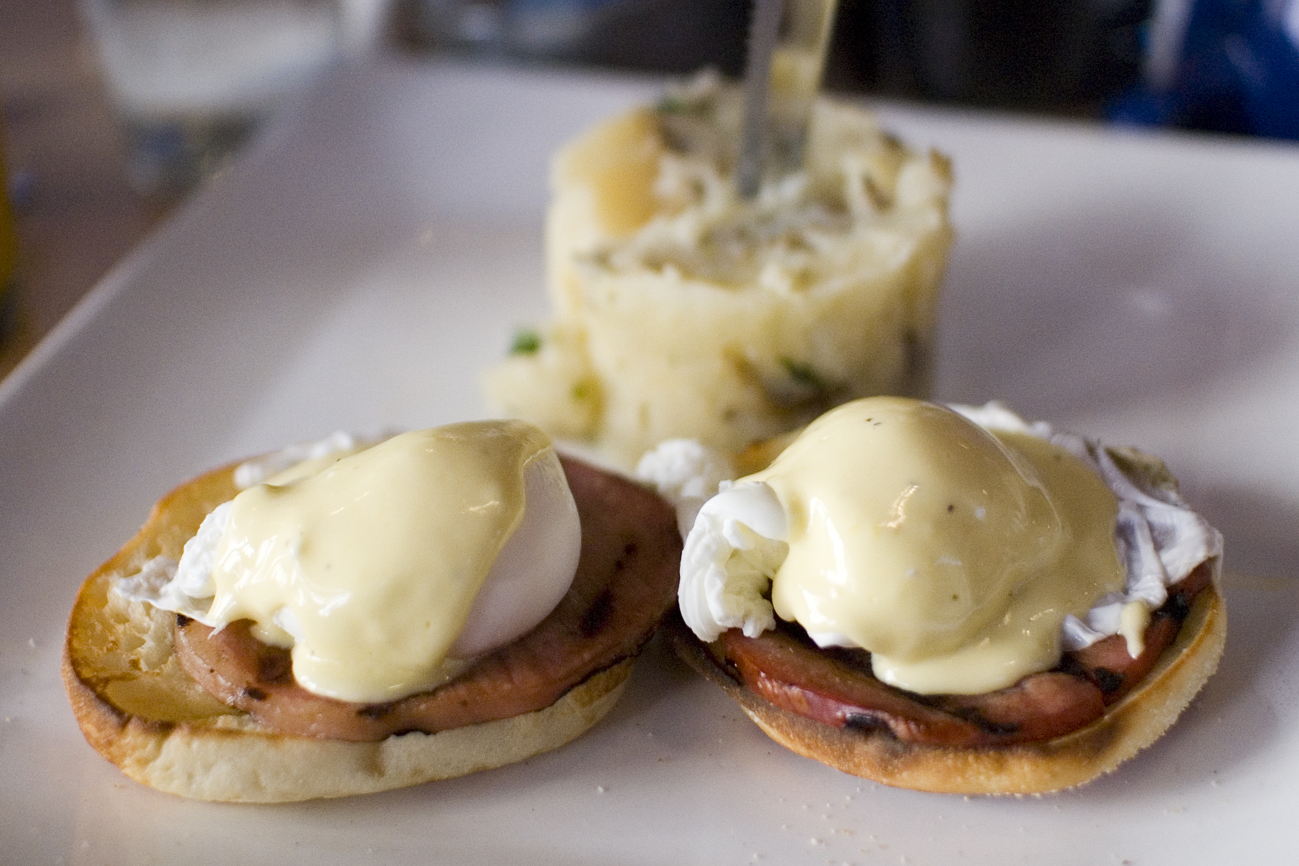 Eggs Benedict consisting of “English muffins topped with Canadian bacon, poached eggs & hollandaise sauce” with their house potatoes in the background, as served at Orange in Chicago, Illinois, according to their online menu as viewed on 2007-05-29.